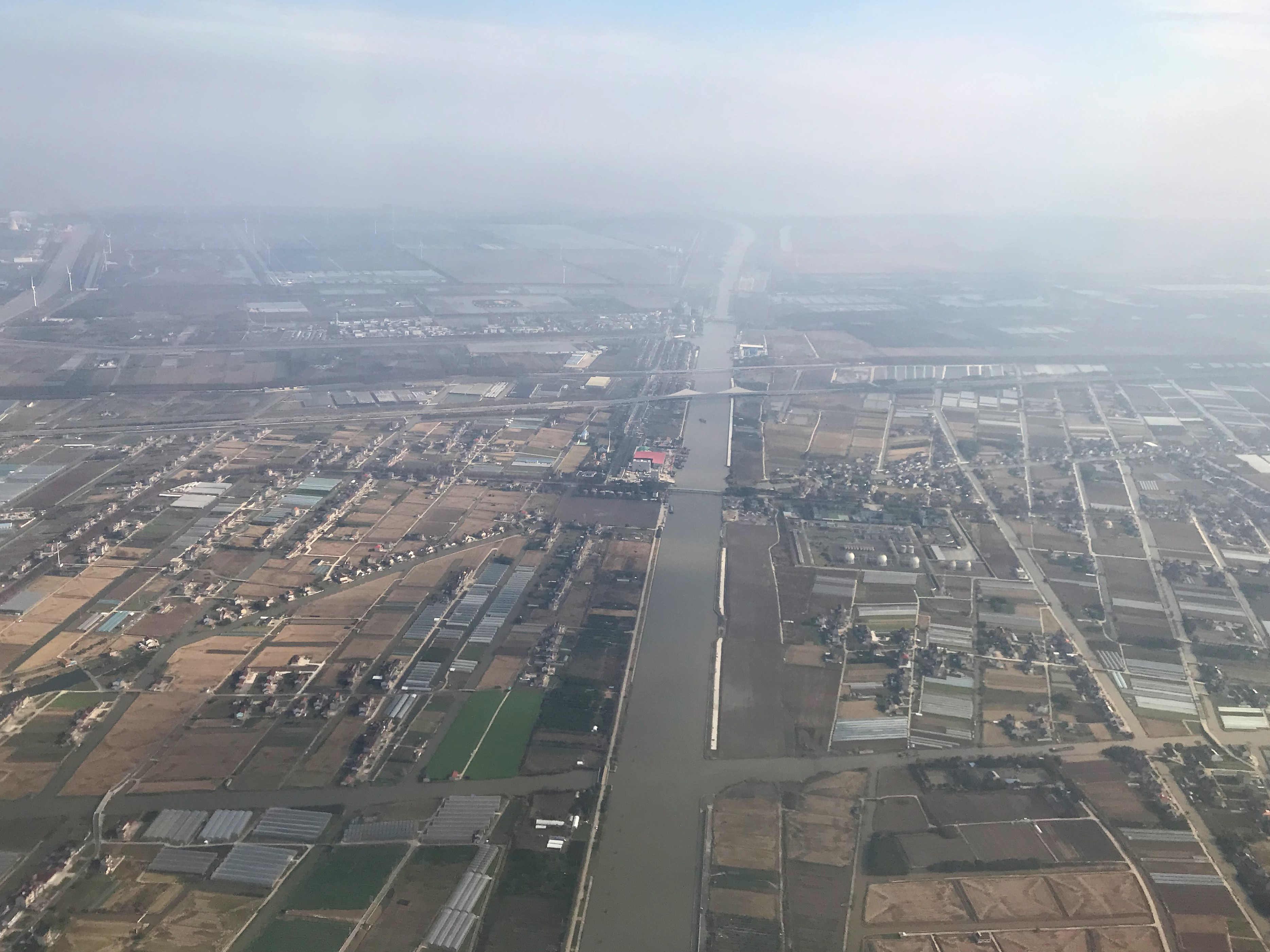 201812 Dazhi Canal